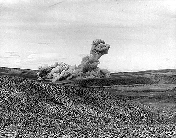 Buggy was the first nuclear row-charge experiment in the Plowshare Program (experiments to develop peaceful uses of nuclear explosives). The NTS experiment on March 12, 1968, consisted of simultaneous detonation of five 1.1-kiloton charges.